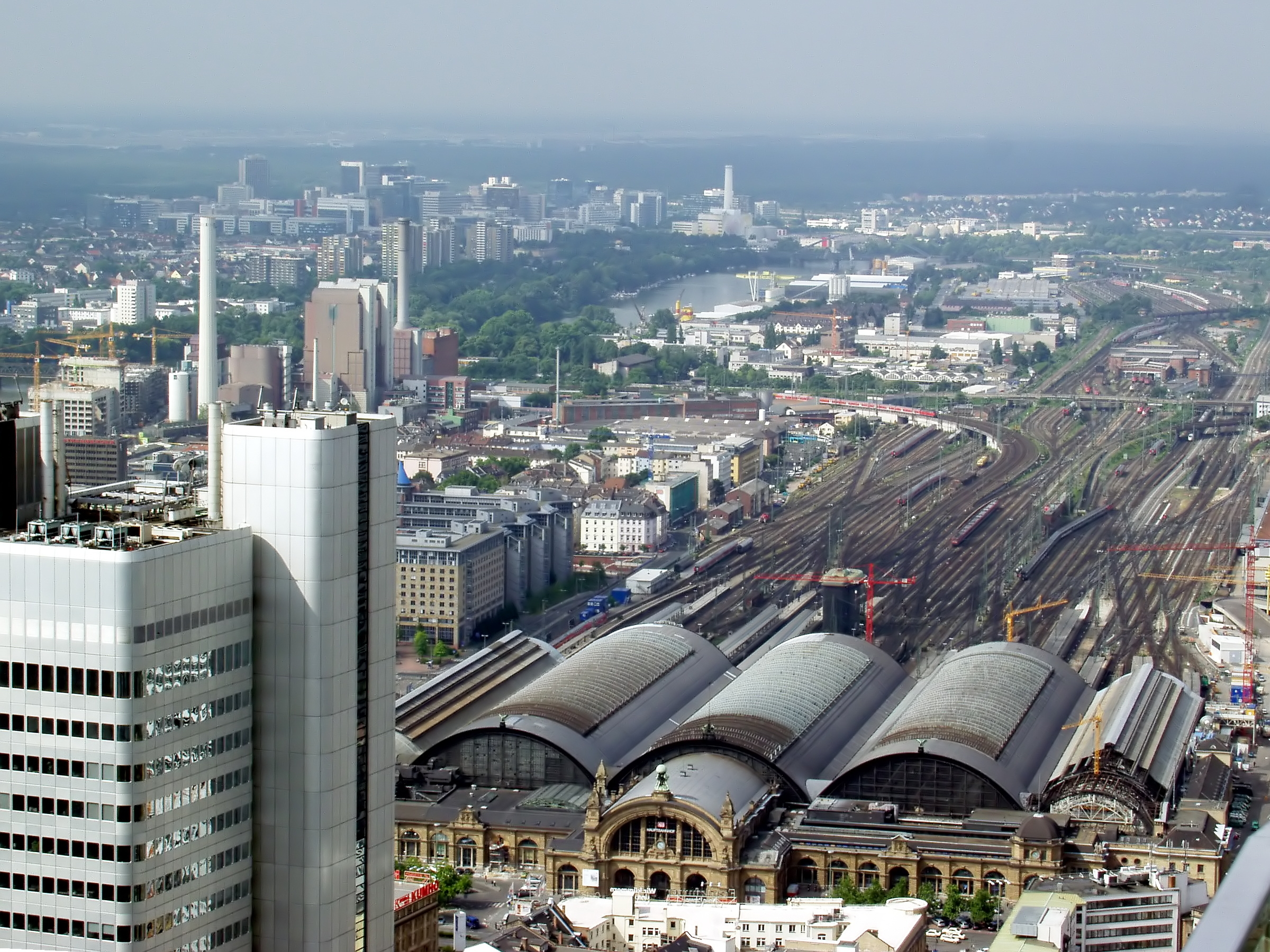 Frankfurt (Main) – main station - from the roof of the Maintower